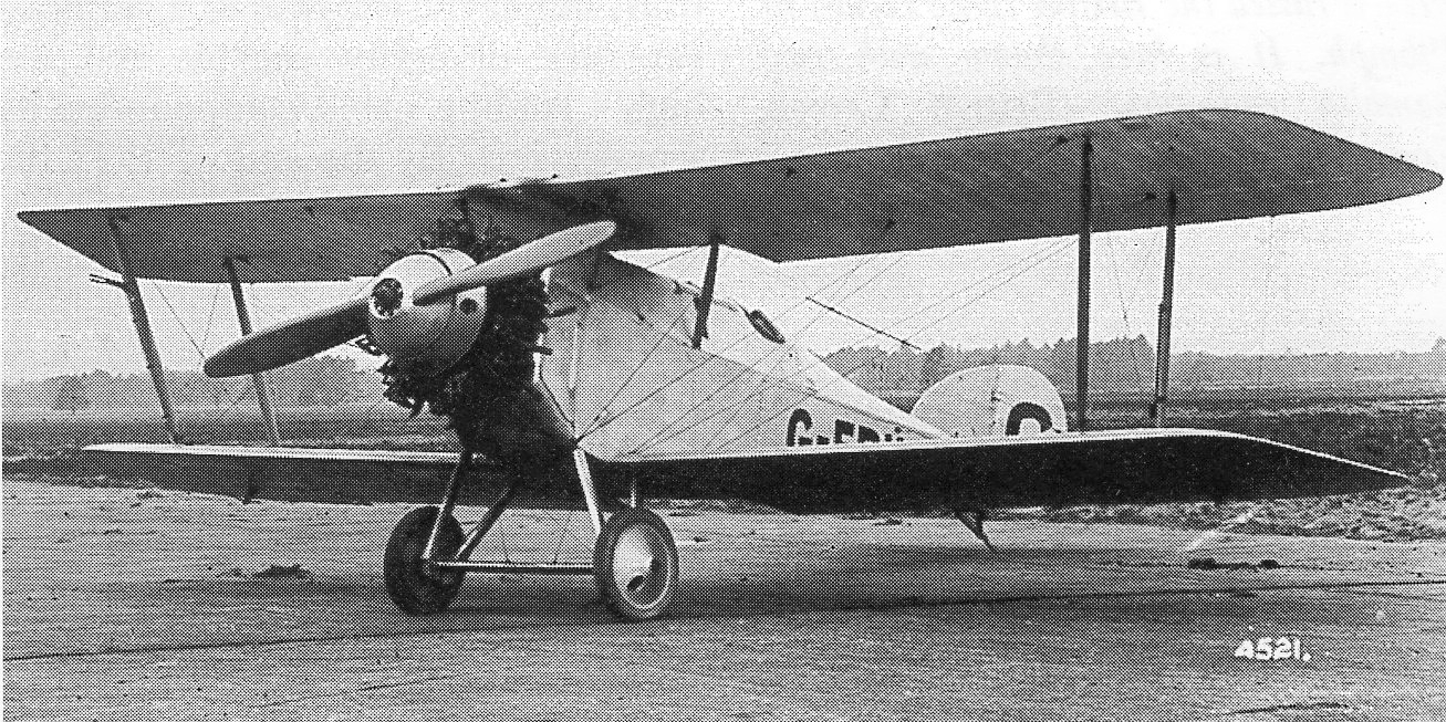 Martinsyde ADC.1 (F.4 racer), registered G-EBKL from 11/24 until 1/30, photographed in early 1925. Armstrong Siddeley Jaguar III.